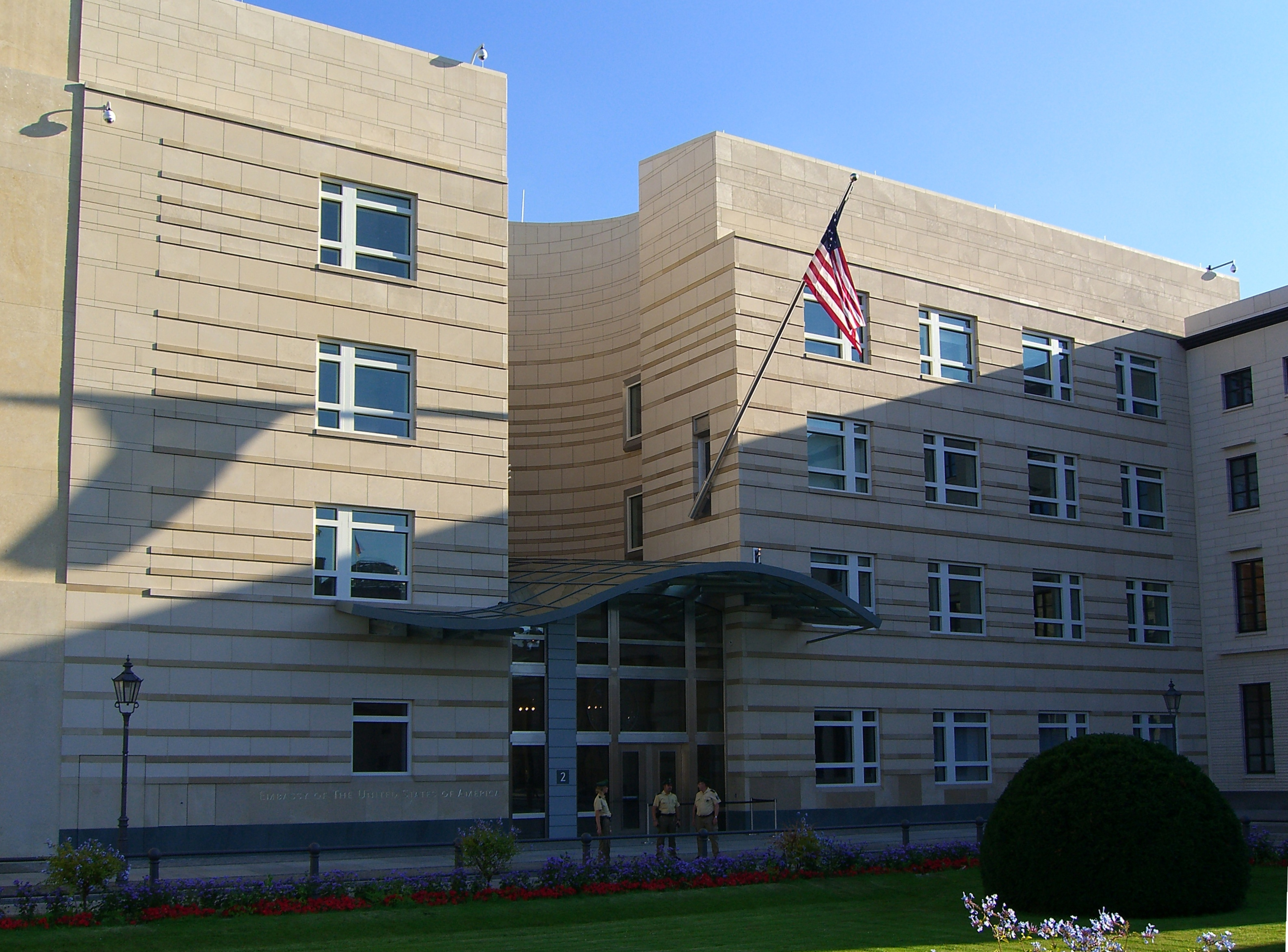 Embassy of the United States of America in Berlin at Pariser Platz.